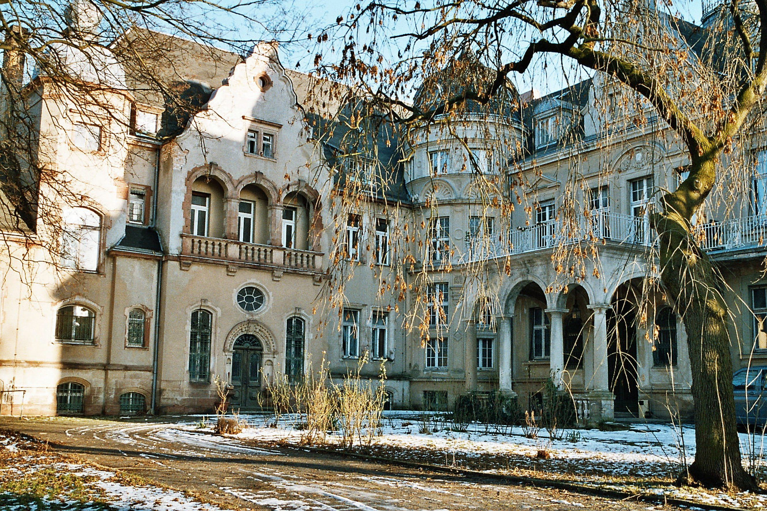 Beesenstedt castle